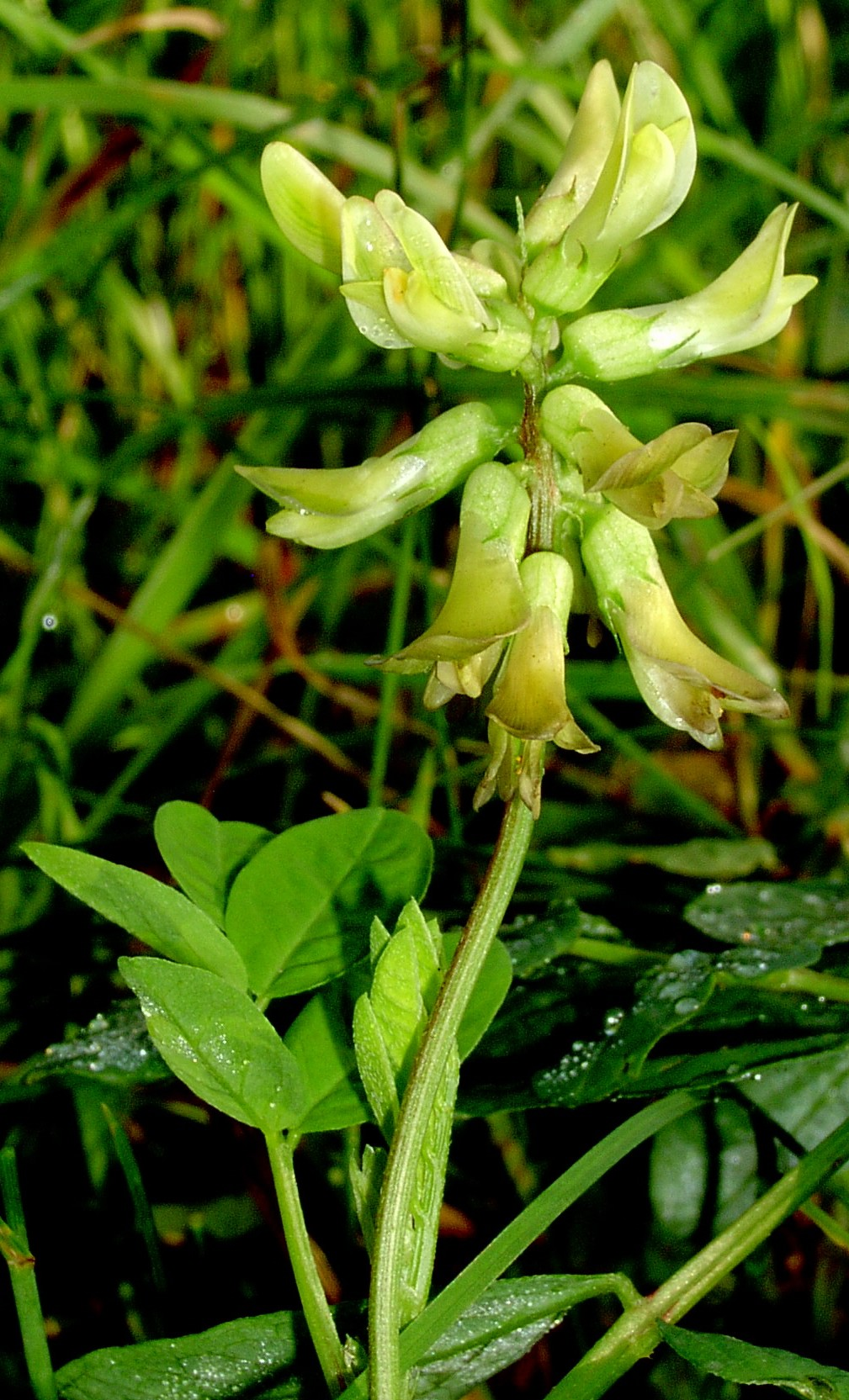 Astragalus glycyphyllos. Inflorescence, Glinna, NW Poland